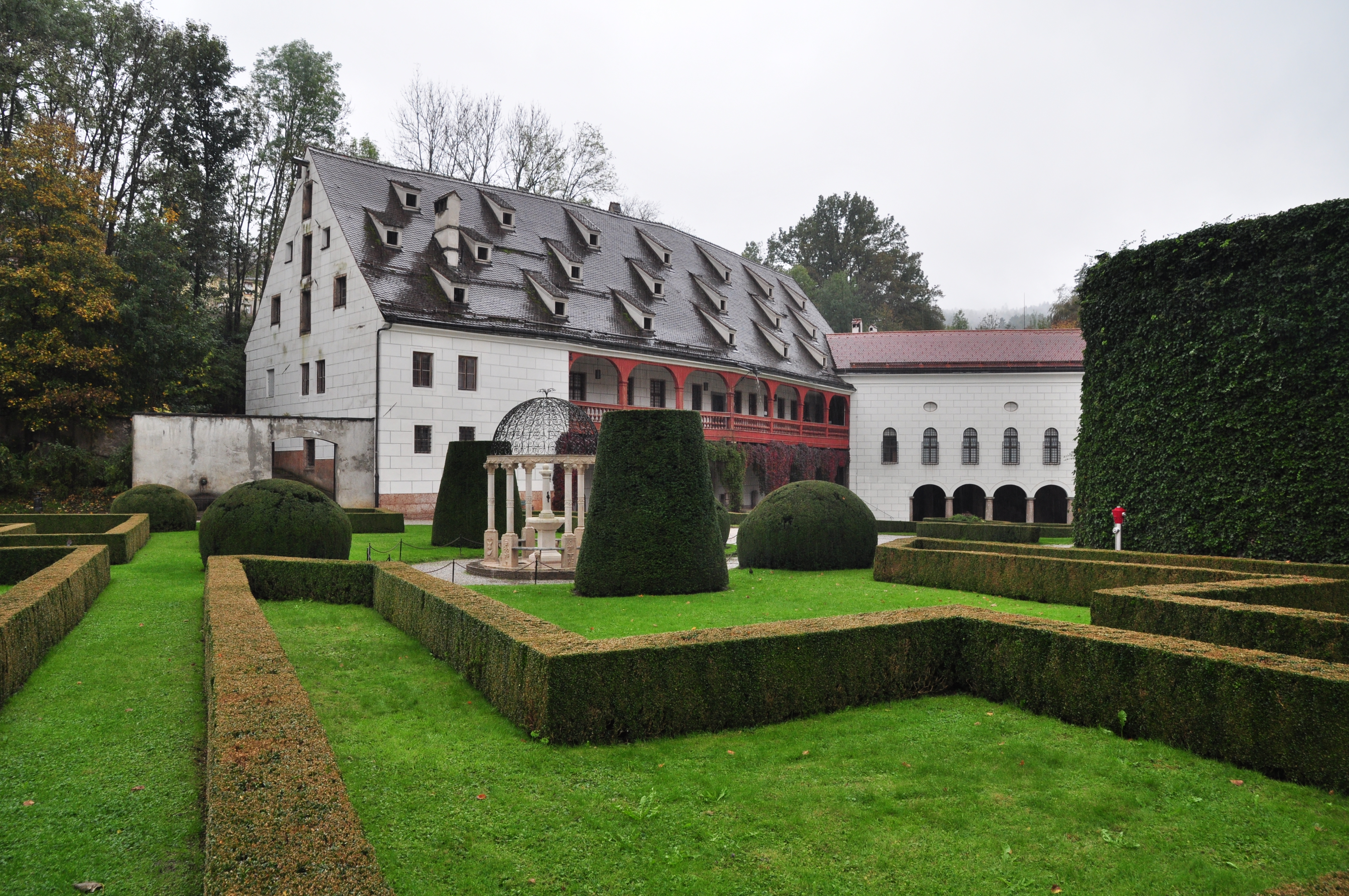 Ambras Castle is a Renaissance castle and palace located in the hills above Innsbruck.